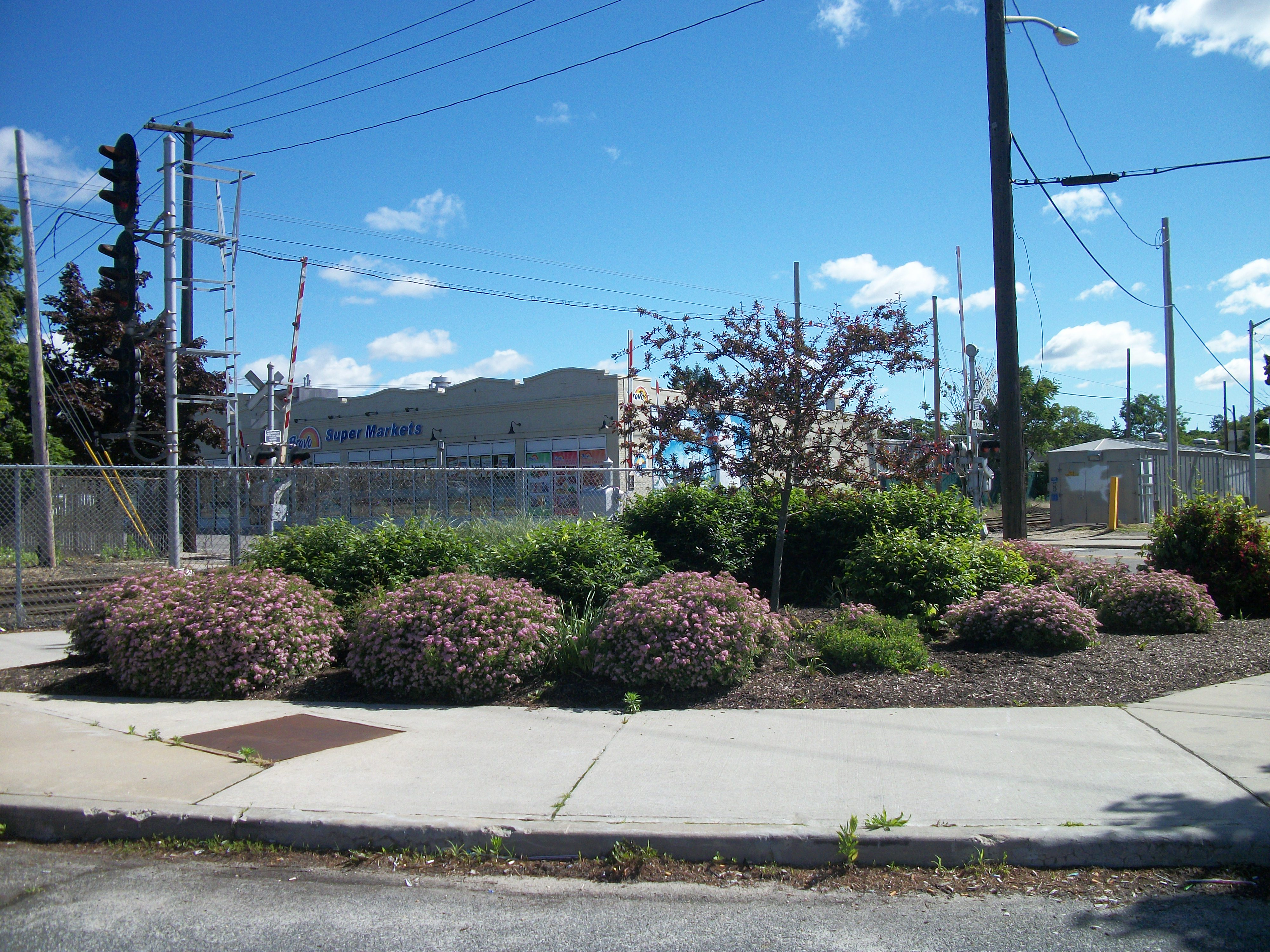 Looking northeast at the garden on the site of the former PD Tower at Patchogue LIRR station on the southwest corner of the grade crossing with South Ocean Avenue in Patchogue, New York.